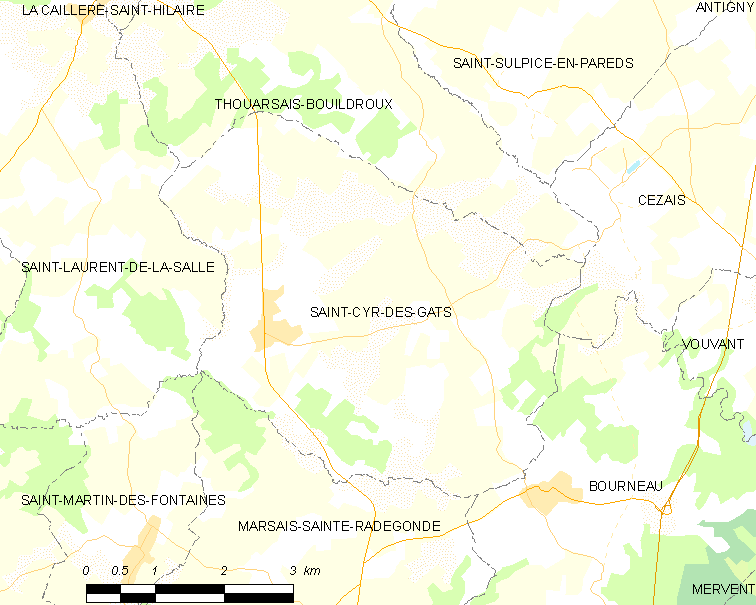 Map of French municipality Saint-Cyr-des-Gâts